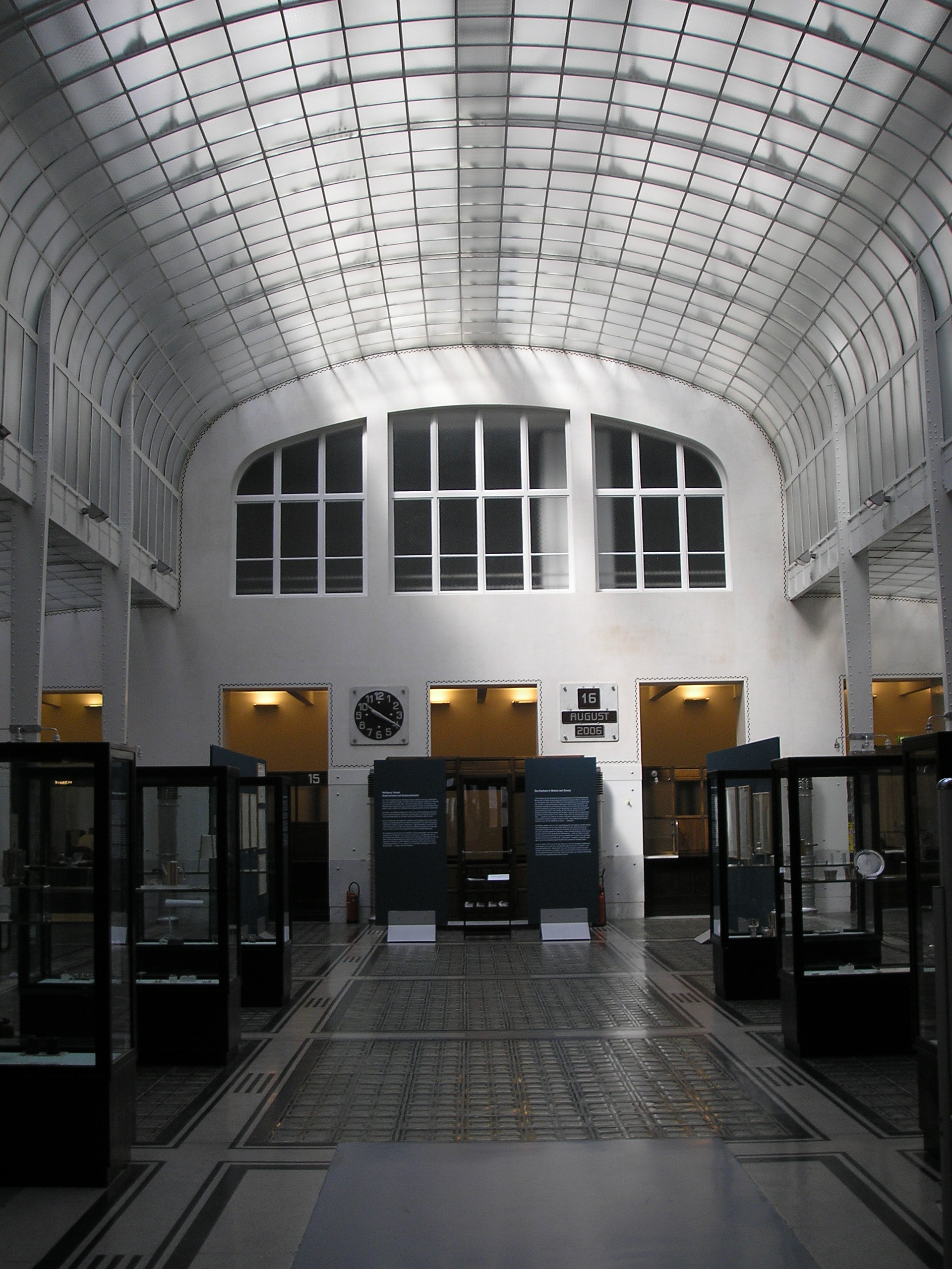 Detail image of the main hall of the Österreichische Postsparkasse (P.S.K.), constructed by Otto Wagner.